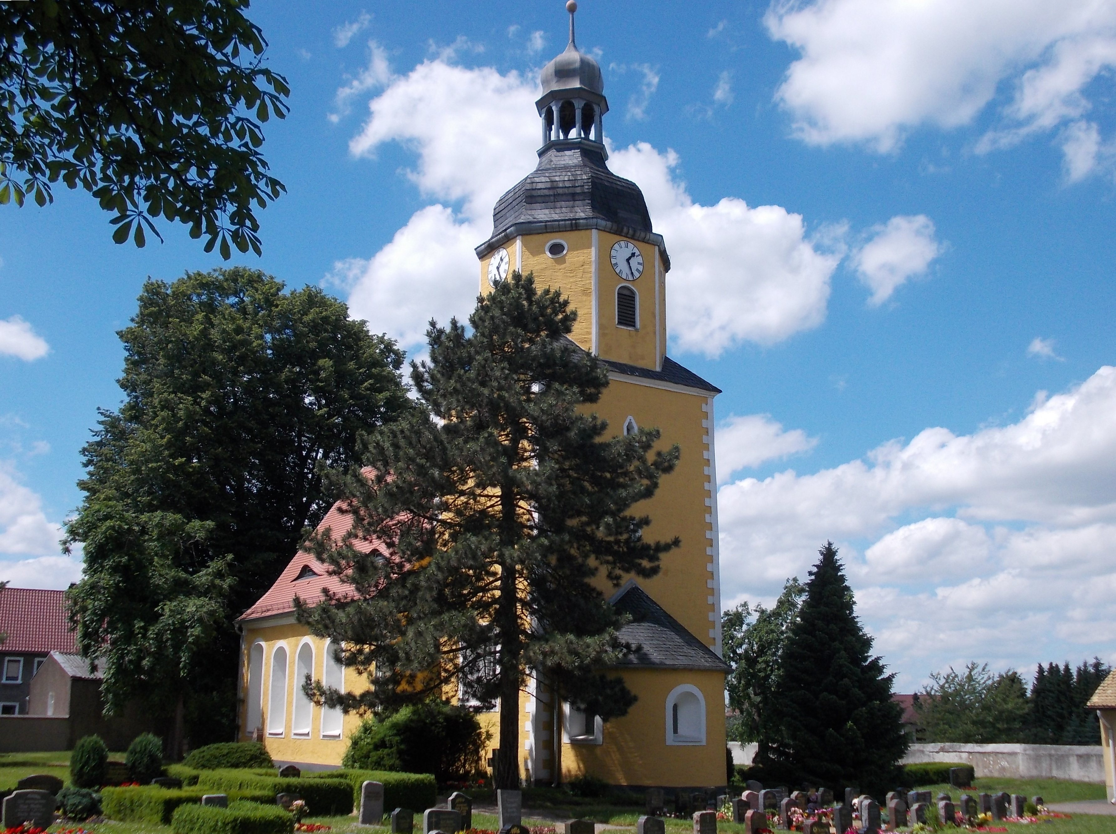 Sachsendorf church (Wurzen, Leipzig district, Saxony)